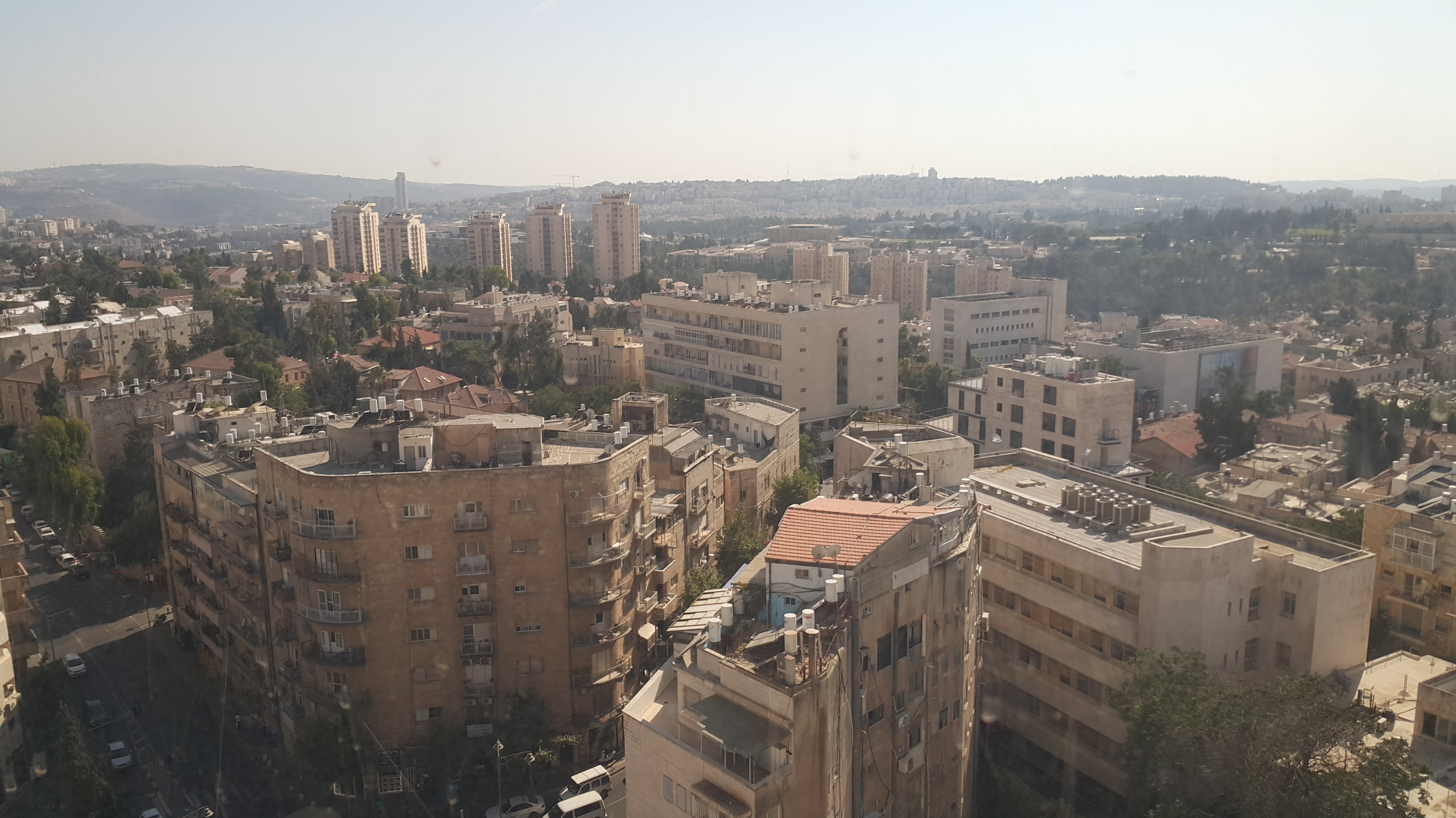 Jerusalem, view from City Tower, looking towards south-west